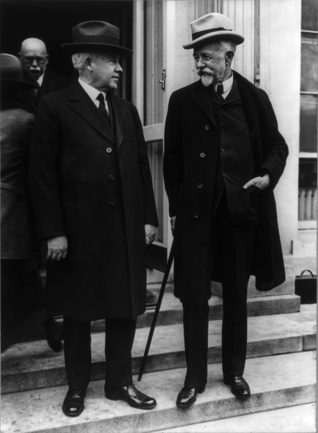 Senator Henry Cabot Lodge (right) and John Taylor Adams, chairman of the Republican National Committee, leaving the White House.